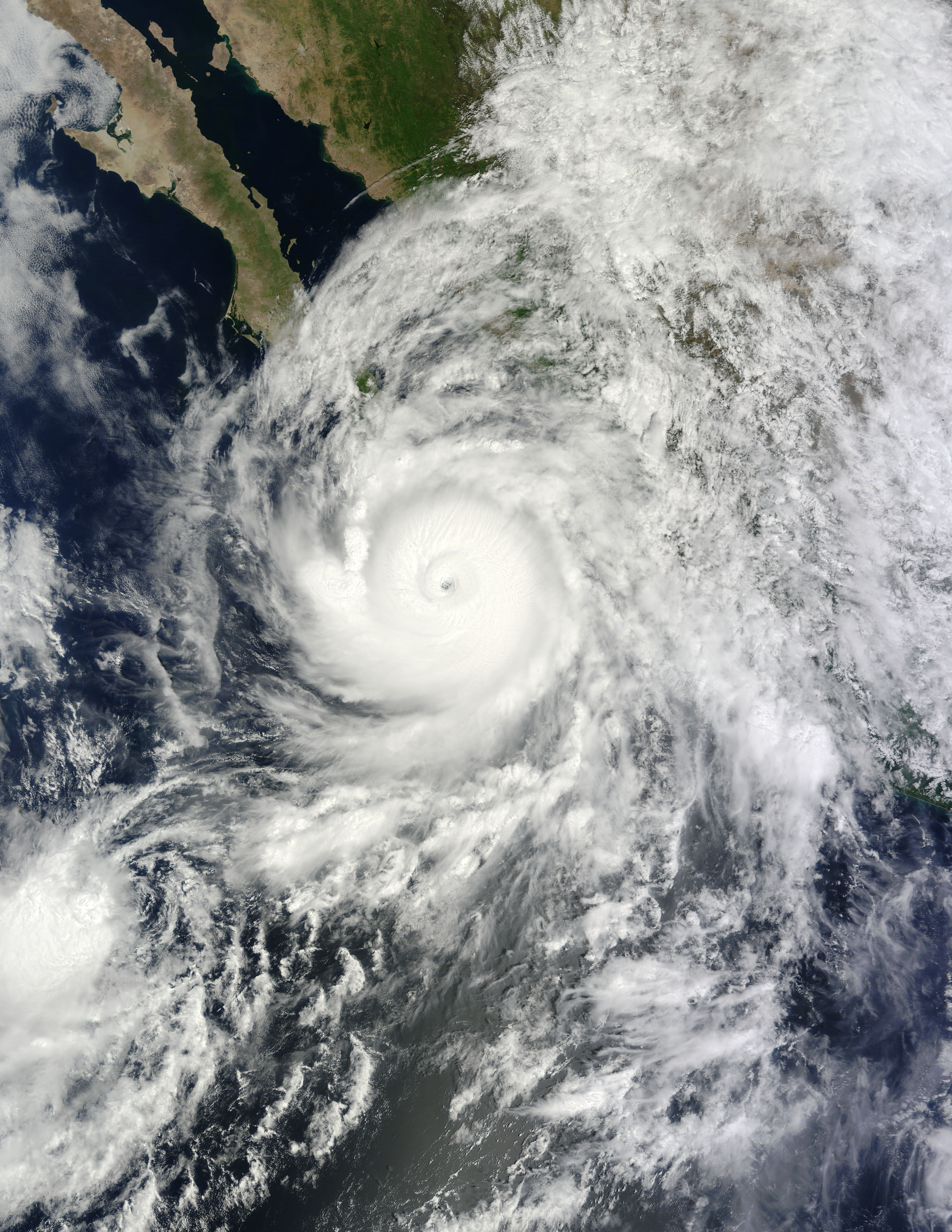 Hurricane Odile shortly after peak intensity and approaching the Baja California peninsula on September 14, 2014. Tropical Depression 16E is also visible in the image, southwest of Odile.